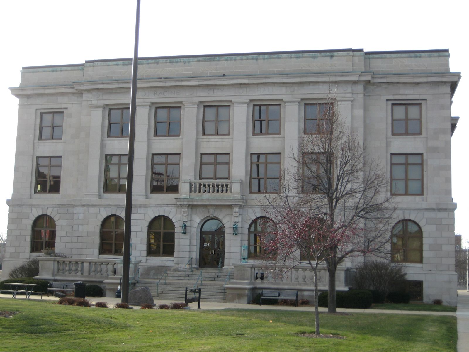 Racine City Hall